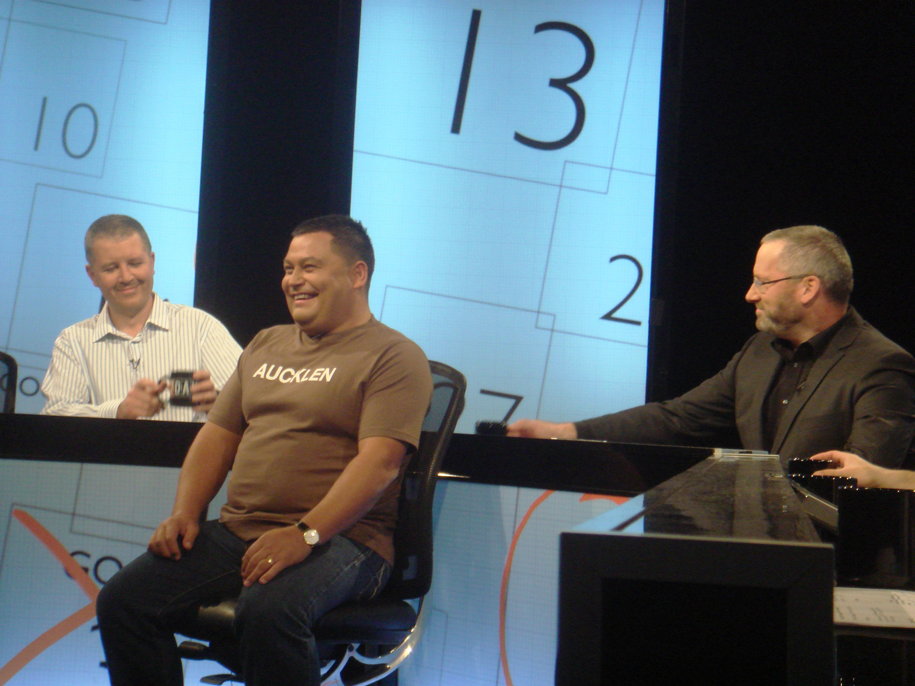 Photos from the filming of the TV3 show 7 Days